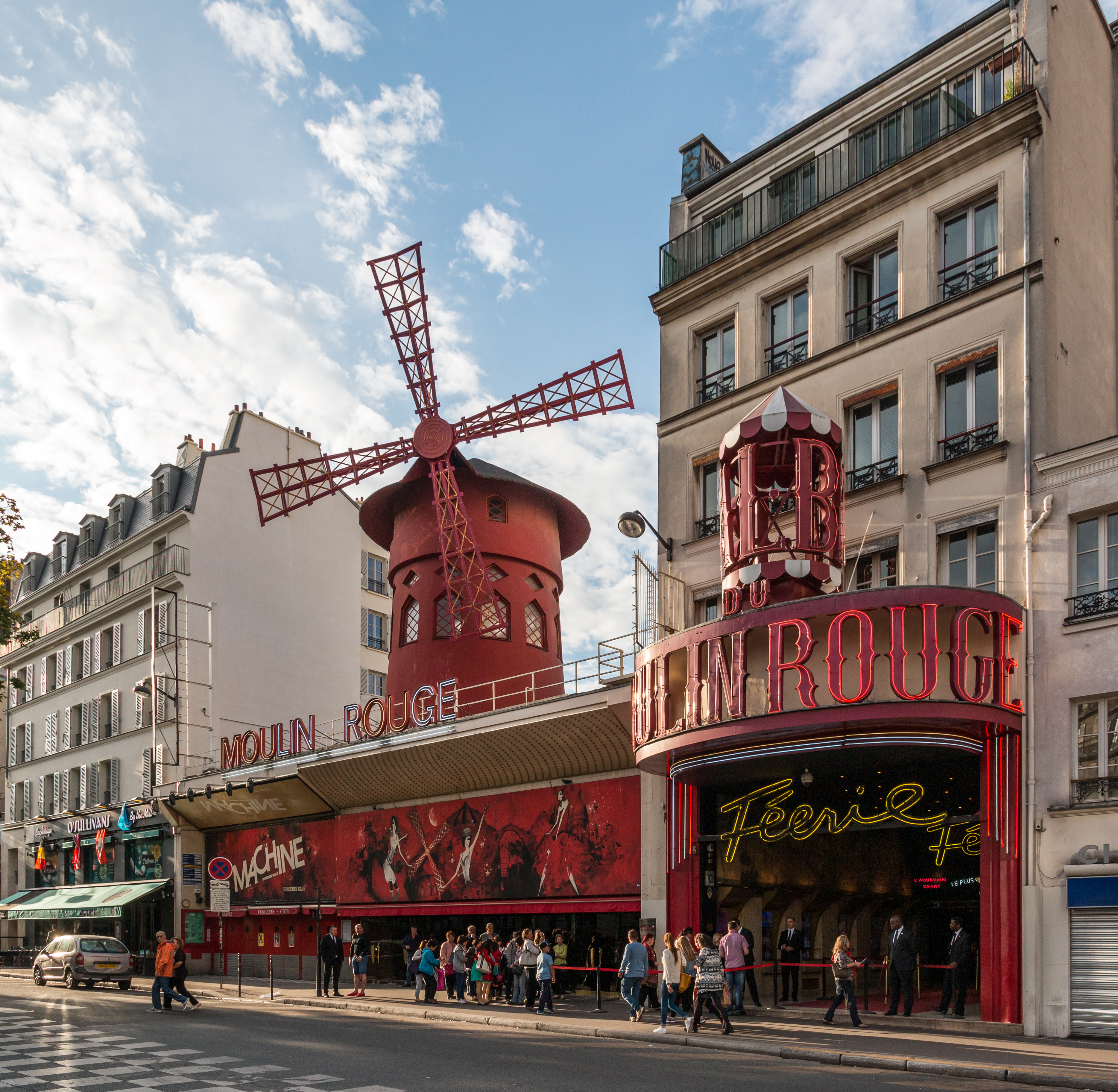 Moulin Rouge, Paris, France